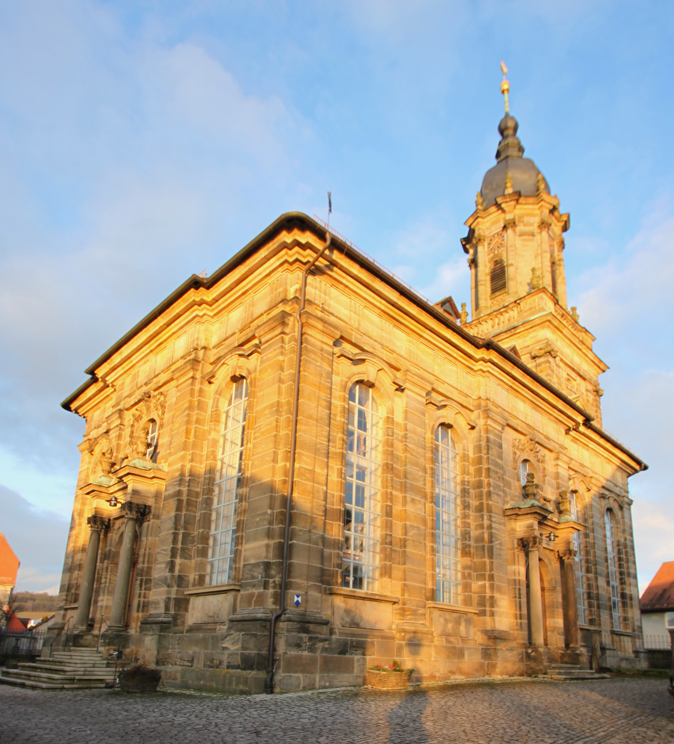 Bindlach's protestant 'St. Bartholomew' church